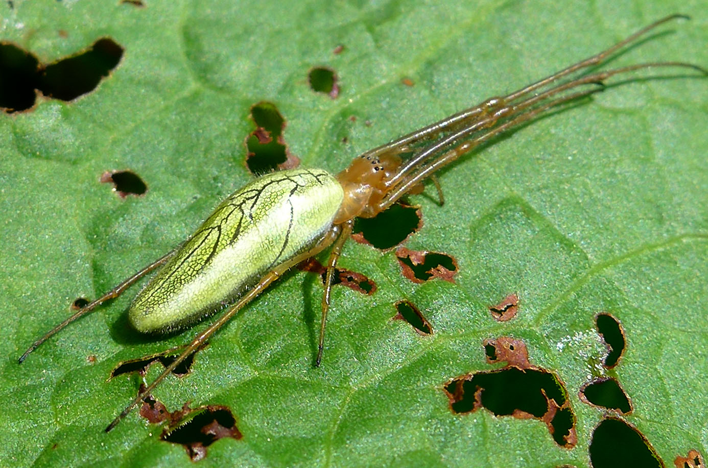 South of Eckington Bridge, Worcs. SO9141